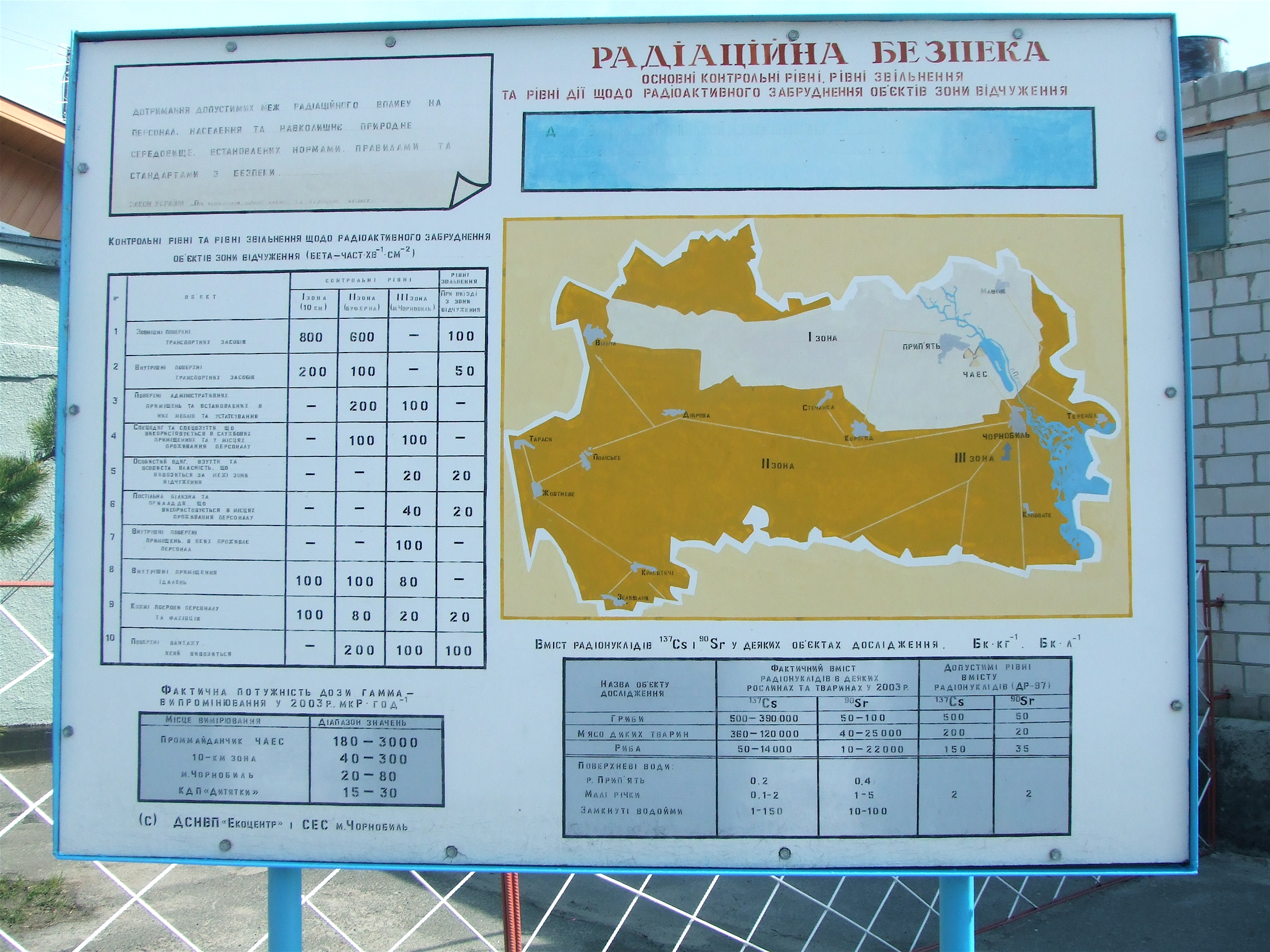 0 Entering the zone Chernobyl